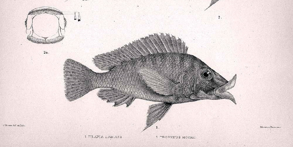 Lobochilotes labiatus